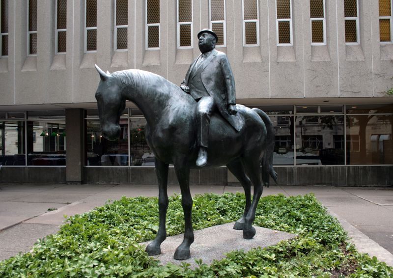 Bronze, 1989 From the city of Calgary website: "McElcheran said his businessmen replace the classical hero. Instead of dealing with heroic imagery, he endeavoured to find his idea of the ‘larger-than-life’ in the non-hero. Conversation grew in his mind as he watched the ‘fat cats’ wheel and deal on the corner of Bay and King Streets in Toronto." "William McElcheran received a scholarship to attend the Ontario College of Art, where in 1948 he graduated at the top of his class and was awarded the Lieutenant Governor’s Medal." " In his earlier years as a woodworker, McElcheran focused on liturgical art as he began carving church furniture. He went on to become chief designer at Bruce Brown and Briesly architects where he helped co-ordinate the planning and designing of churches and university buildings." " His countless stations-of-the-cross, stained-glass windows, and bas-reliefs can be seen in churches in Toronto, Hamilton and Quebec. As he began to seek other clients, his work became more secularized, which led to the creation of his businessmen." "McElcheran is now internationally recognized for his bronze figures of portly businessmen, portraying these self-important men of trade in different settings and situations. His commissioned works can be found in churches, subways, and numerous public places worldwide." "Since his death in 1999, McElcheran forgeries have appeared on the market, which is indicative of how well regarded and widely accepted his works have become."